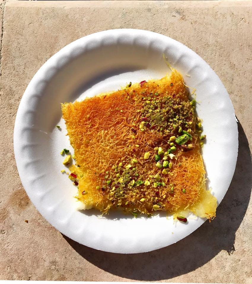 A piece of Knafeh kheshneh قطعة من الكنافة الخشنة